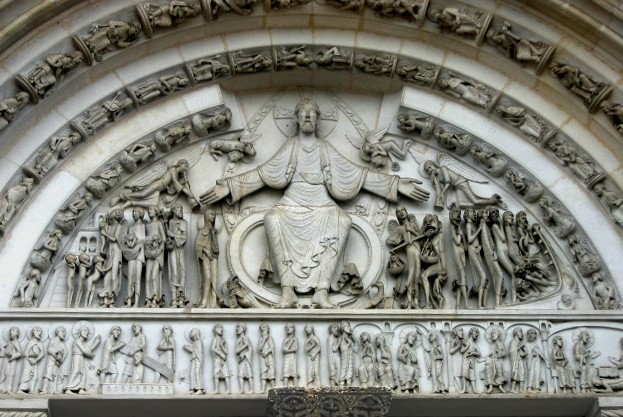 France, Abbey of la Madaleine Vezelay, 19th century reproduction of the 12th century tympanum inside the porch.